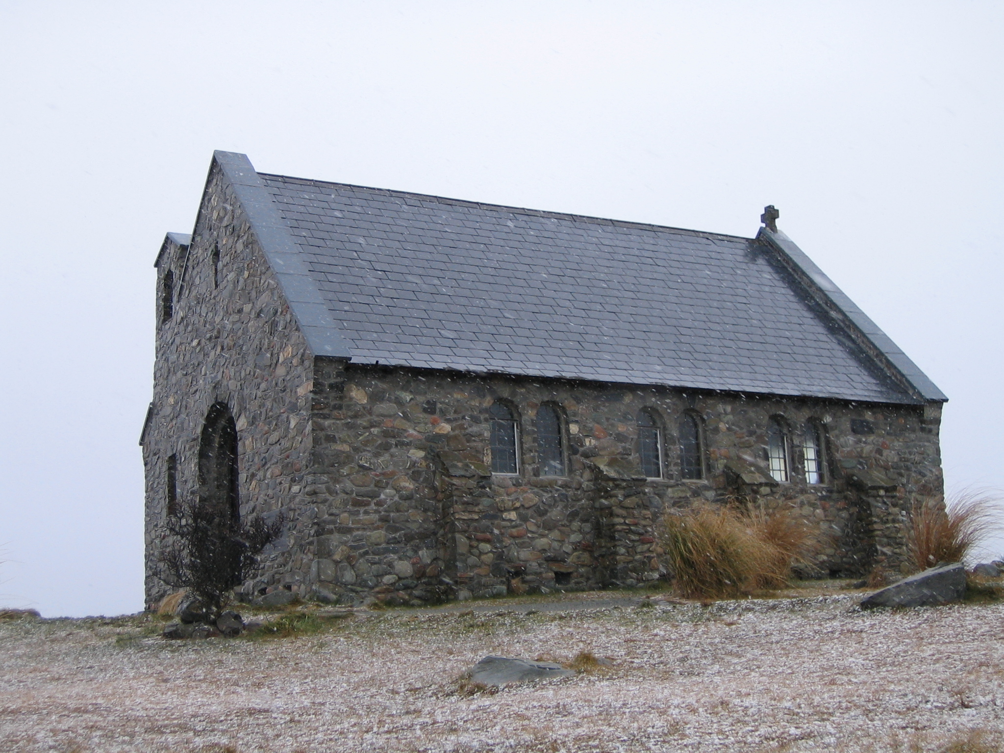 Church of the Good Shepherd in winter, Lake Tekapo, New Zealand. New Zealand Historic Places Trust Register number: 311.